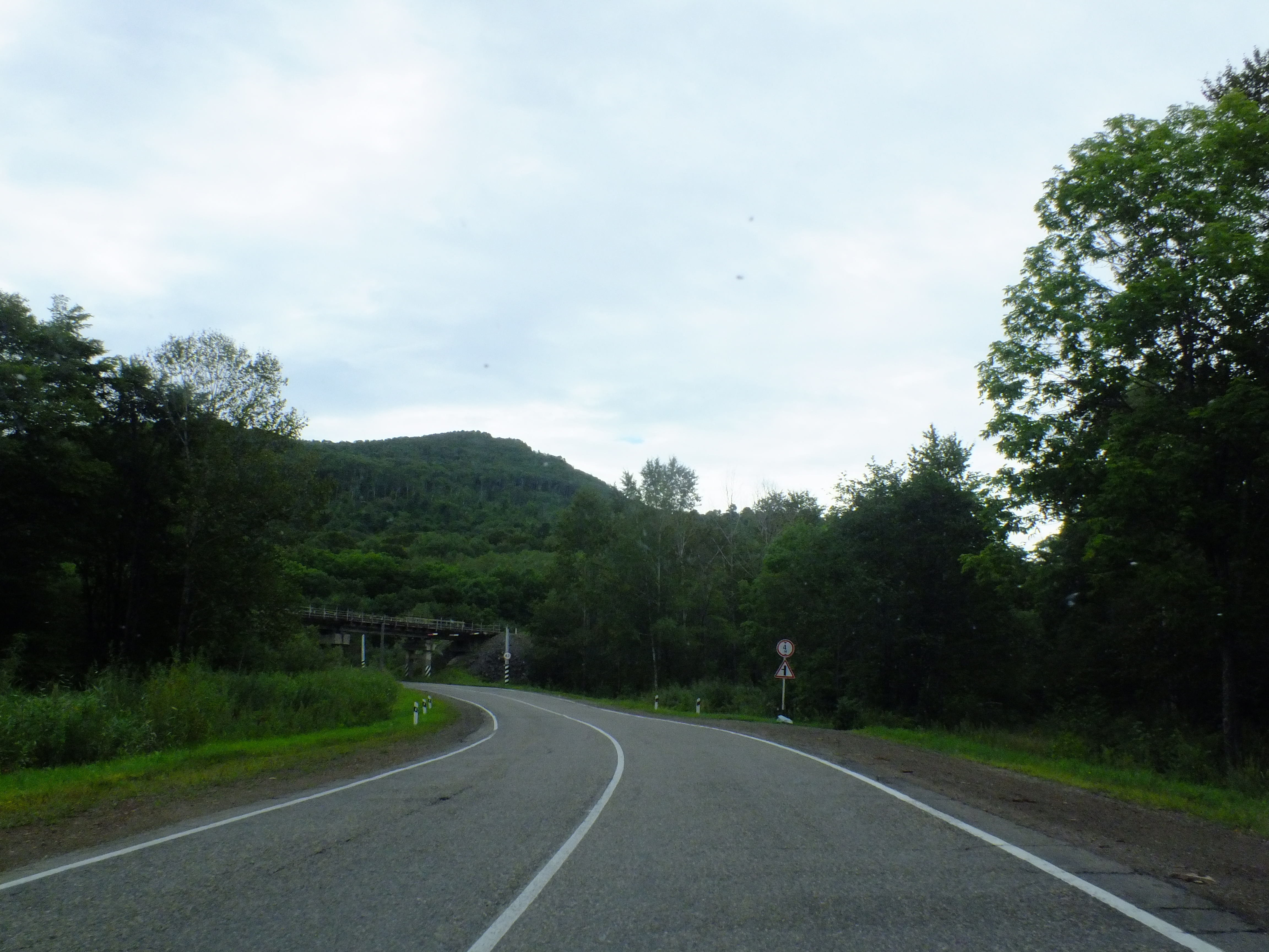 Yakovlevsky District, Primorsky Krai